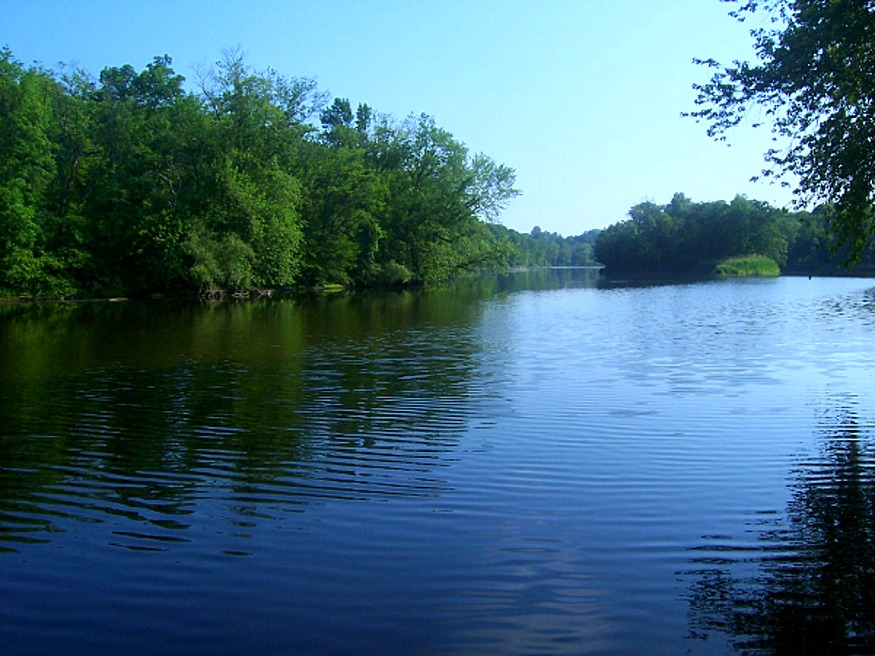 Photographed 2005-06-12 by Daniel Case